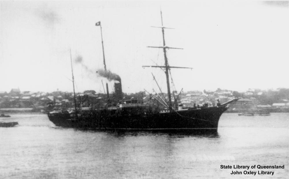 Aberdeen (ship) Built 1881. 3616 gross tons. Owned by Aberdeen Line. (Description supplied with photograph).